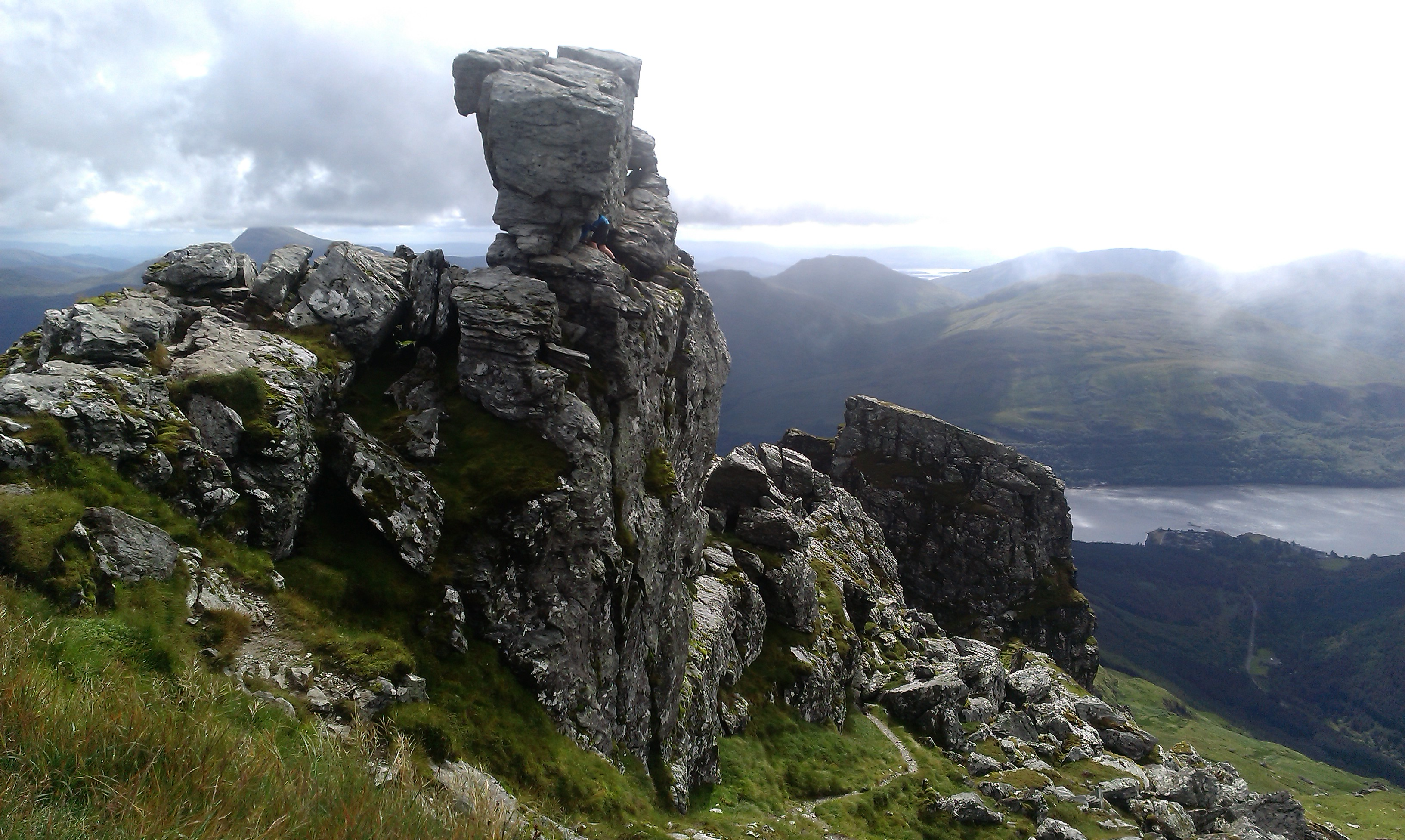 The highest point of The Cobbler